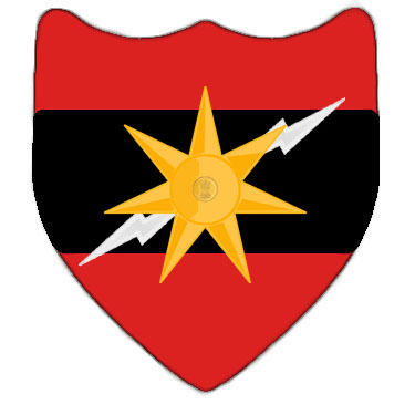 The shield(emblem) of the South Western Command of the Indian Army